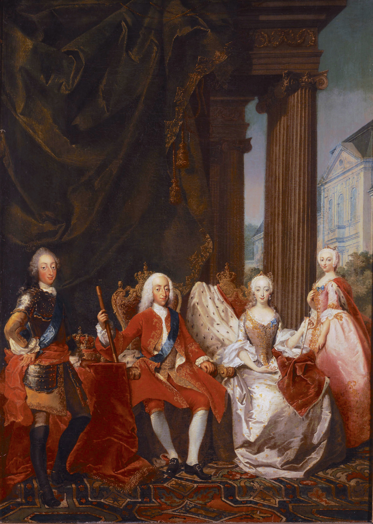 King Christian VI with his family (Queen Sophie Magdalen, Crown Prince Frederick (V), and Crown Princess Louise). Hirschholm Palace can be seen as a backdrop